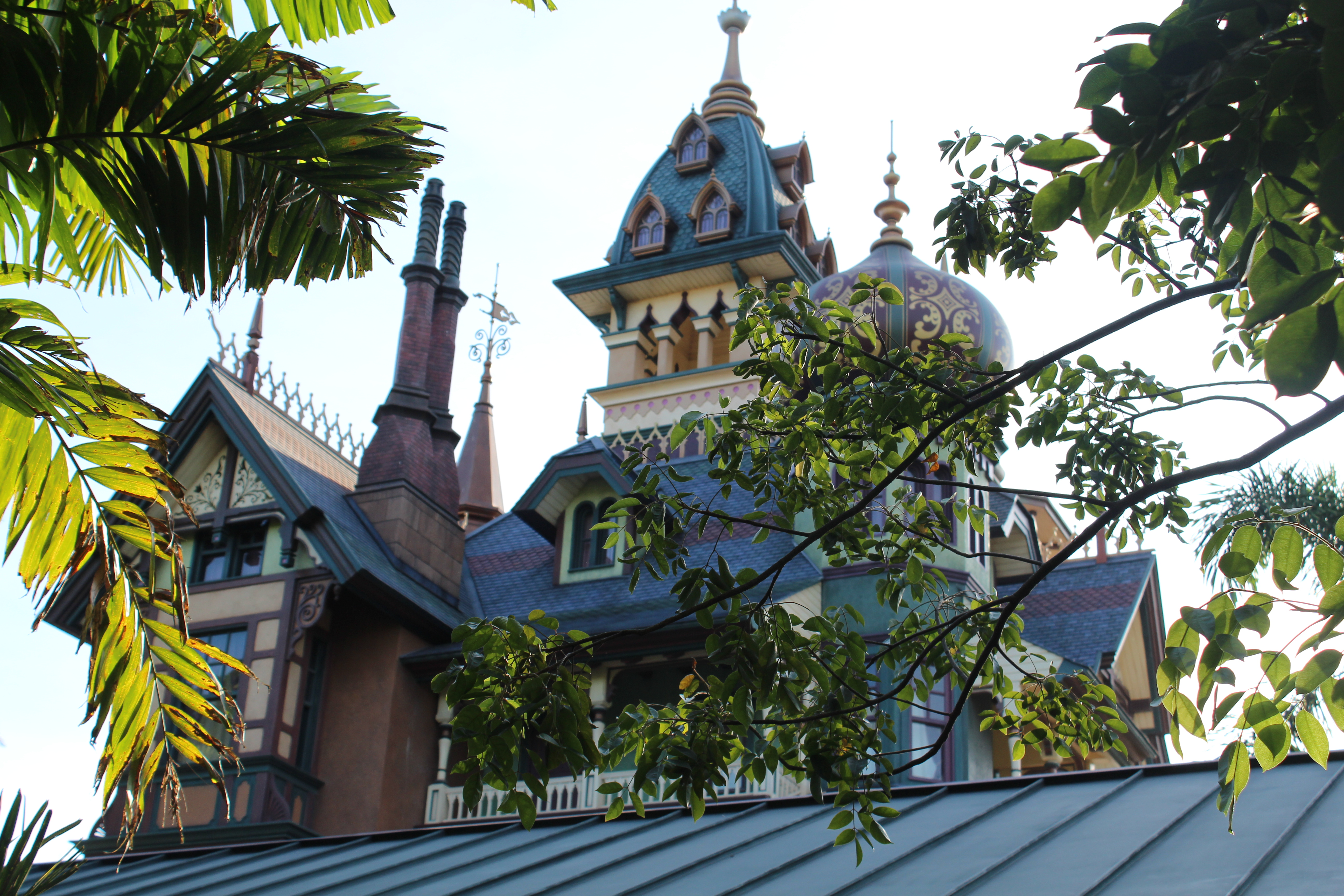 Mystic Manor, Hong Kong Disneyland, Hong Kong